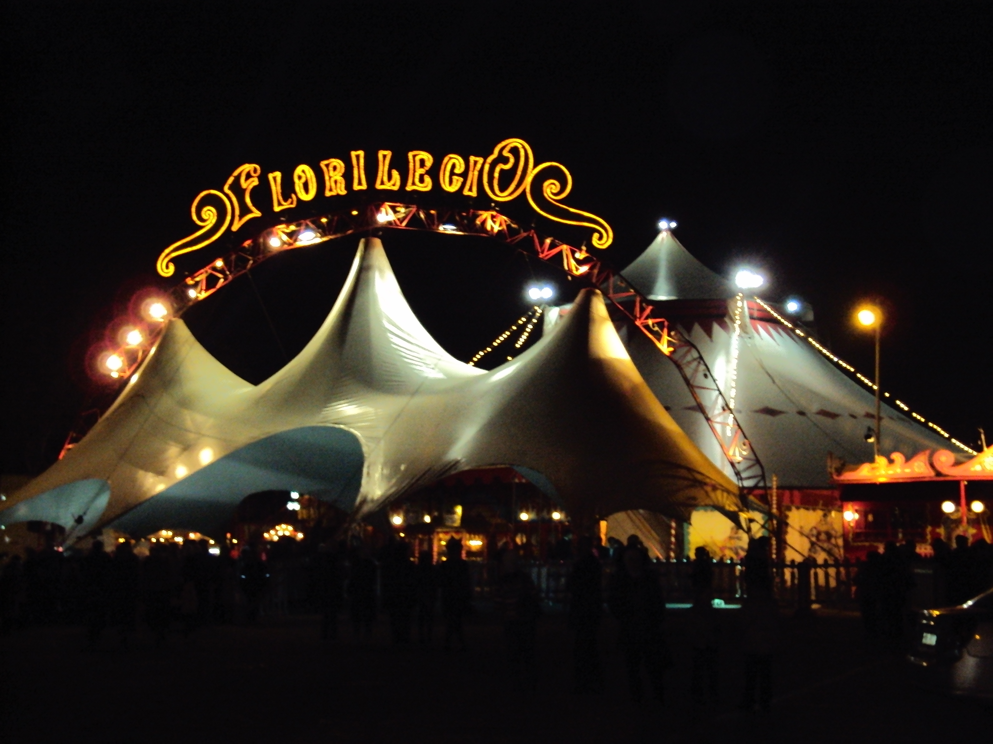 Full story: القصة l'histoire